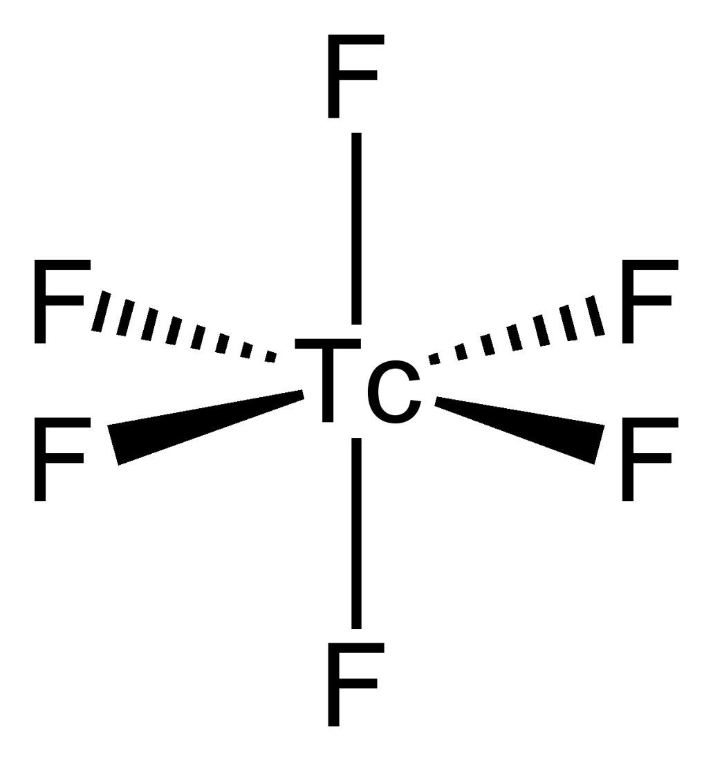 Structural formula of the technetium hexafluoride molecule, TcF6